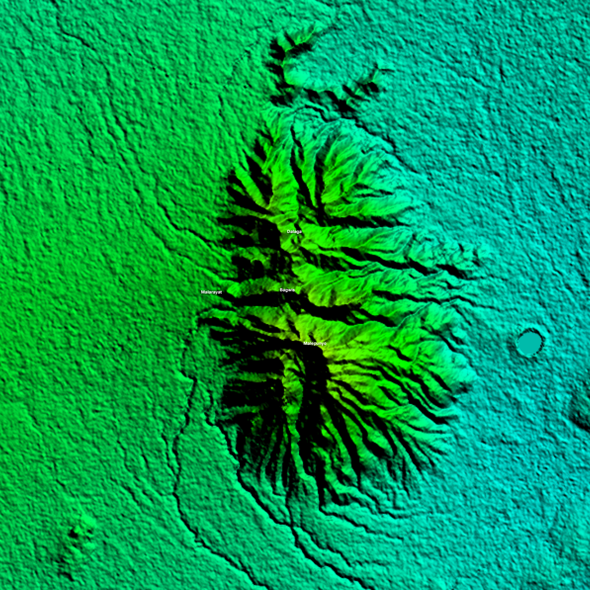 Malepunyo Range Relief Map on 1 arc second/30-meter resolution from SRTM released September 23, 2014 Rectangular Projection based on coordinates W=121° 09' 26.0737" E N=14° 03' 32.1876" N E=121° 19' 22.8349" E S=13° 53' 35.4264" N AREA=330.37 sq km